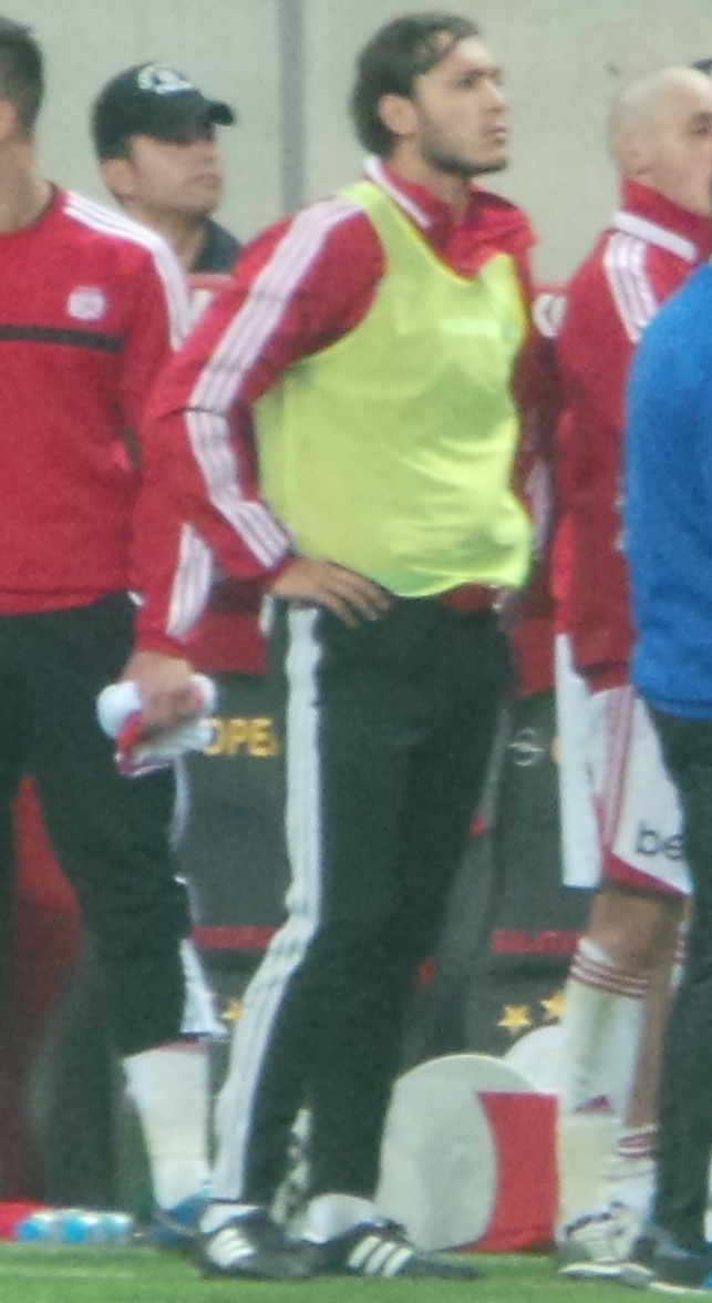 Ibrahim sürgülü